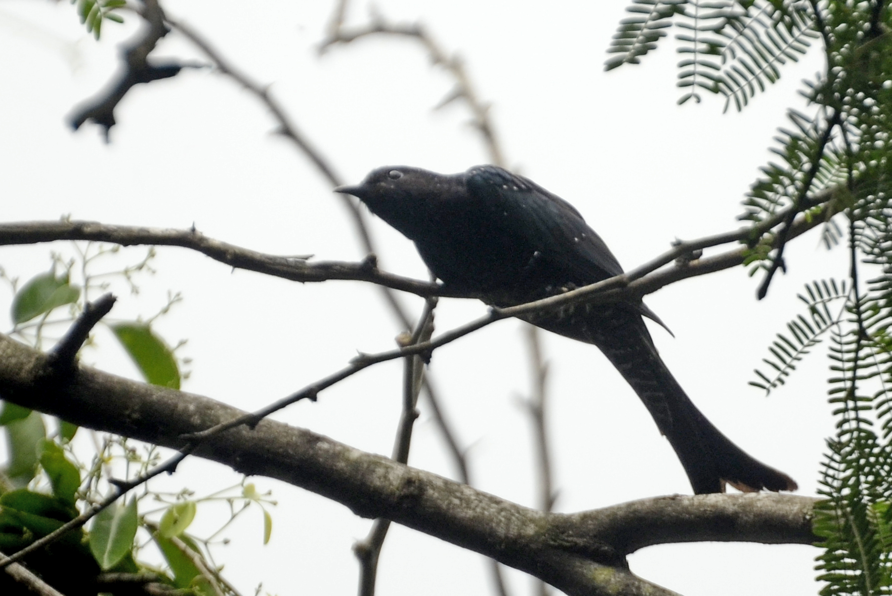 Fork-tailed drongo-cuckoo (Surniculus dicruroides) from the Anaimalai hills, Southern Western Ghats.